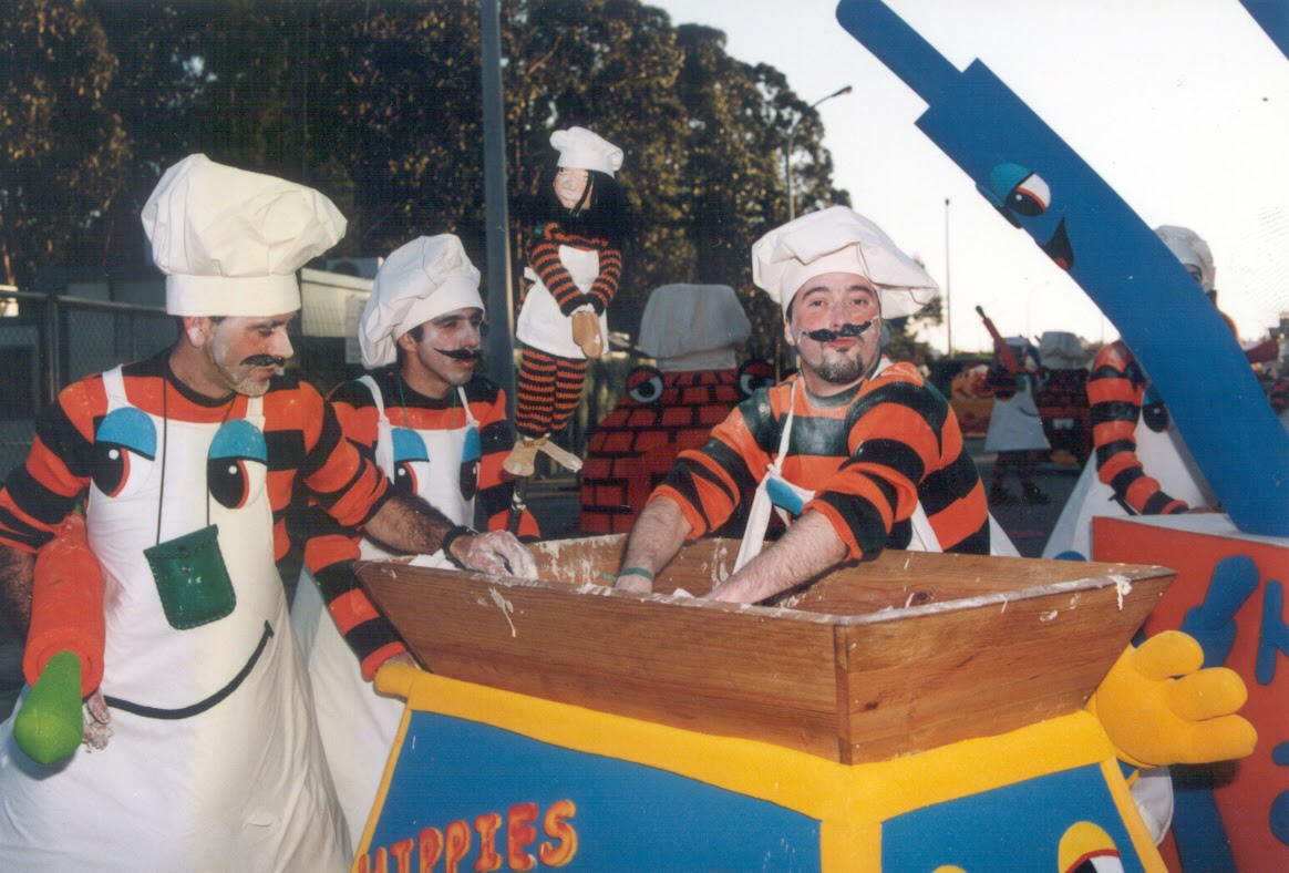 Ovar's (Portugal) Grupo Carnavalesco Os Hippies' 2002 Carnival parade